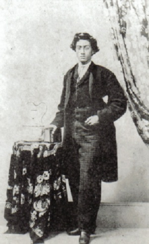 John Kanipookalani Meek III (1848-1879). The son of High Chief John Meek Jr. and his second wife High Chiefess H. L. Kepookalani. He became the first Native Hawaiian to take up the art of photography as a profession.